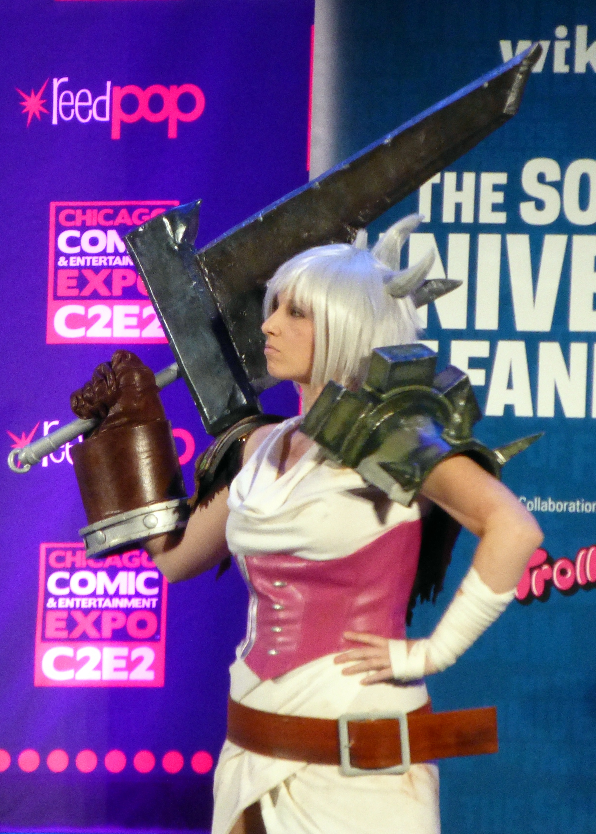 Jillian Hendricks cosplaying as Riven, the Exile (from League of Legends) at the First Annual Chicago Comic & Entertainment Expo (C2E2) Crown Championships of Cosplay in 2014.